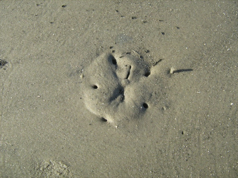 Sand Dollar beneath the sand at low tide Mitchelville Beach Park, Hilton Head Island, South Carolina